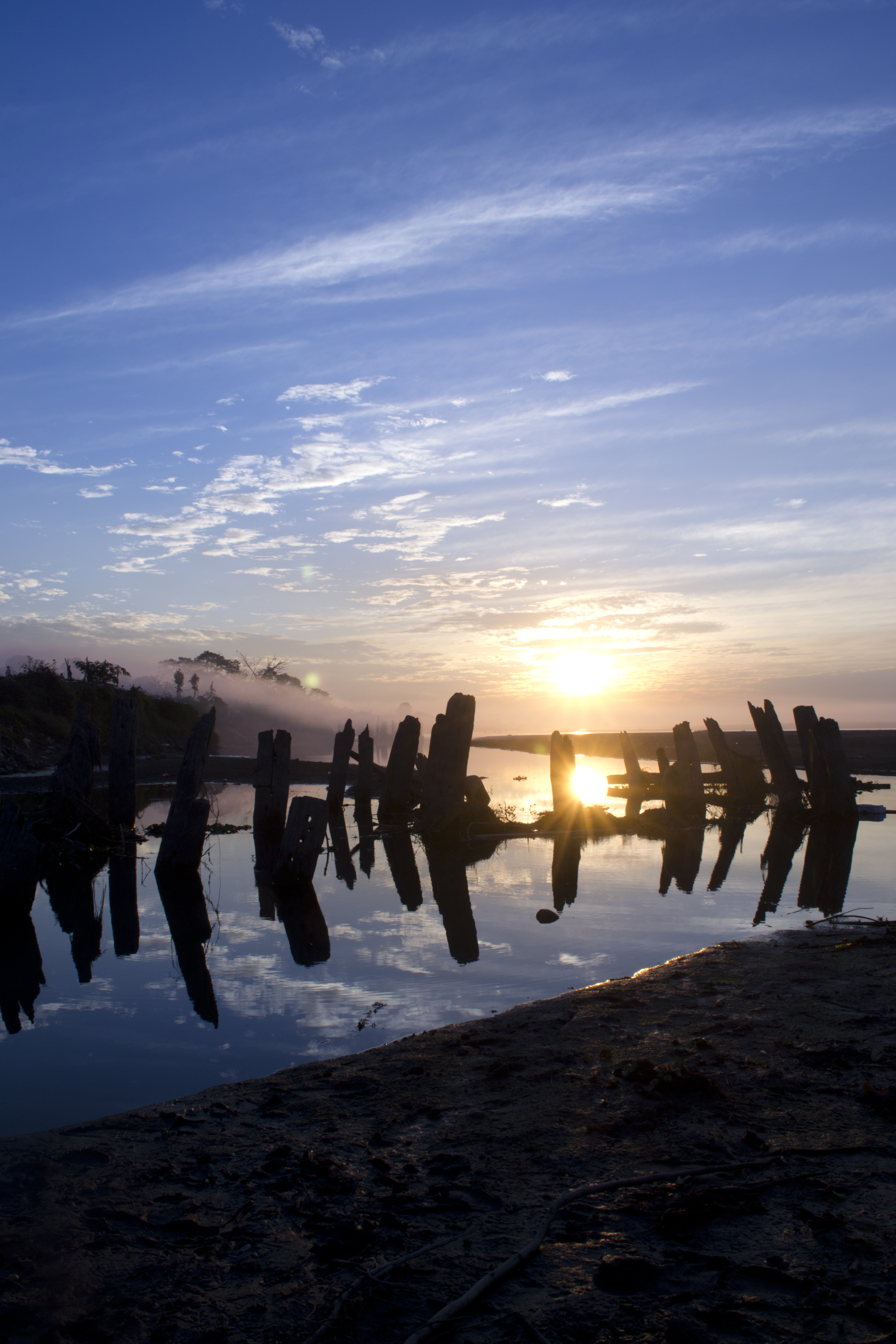 The sun going down in the Brahmaputra